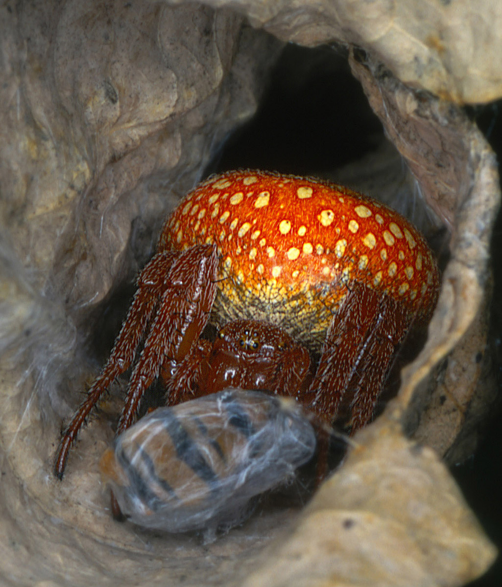 Description: Araneus alsine